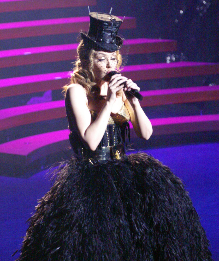 Kylie Minogue, Live Bell Center, Aphrodite Live Tour, Montreal, 28 April 2011 (90)